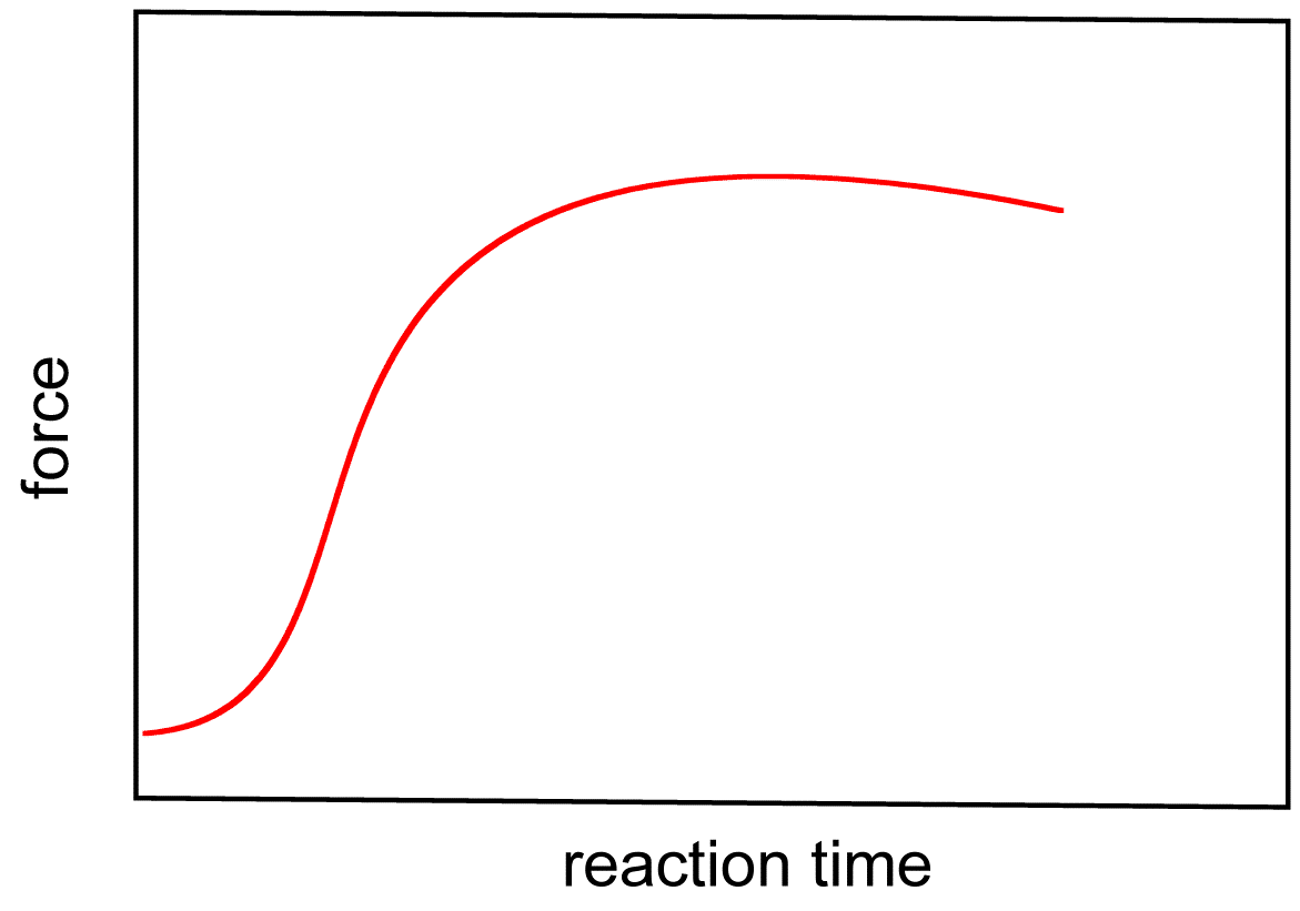 idealized graph of viscosity or force vs crosslinking